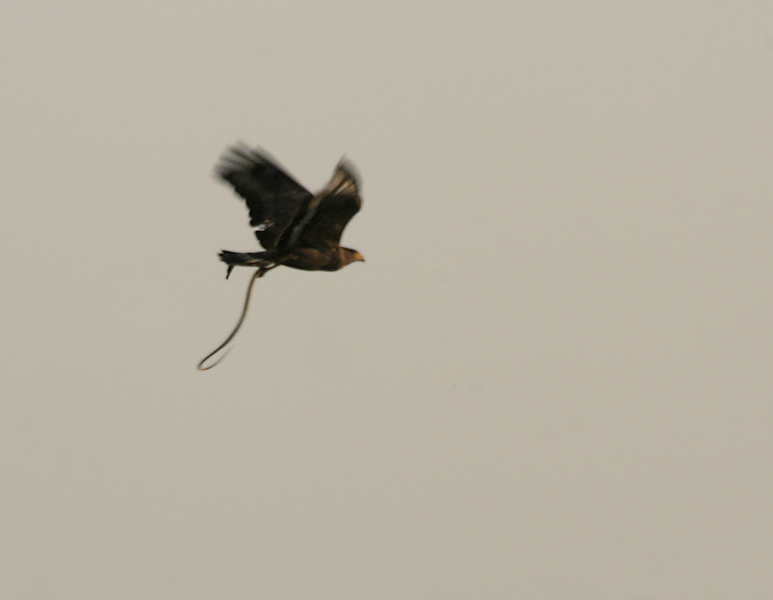 Crested Serpent Eagle Spilornis cheela in Kinnerasani Wildlife Sanctuary, Andhra Pradesh, India.